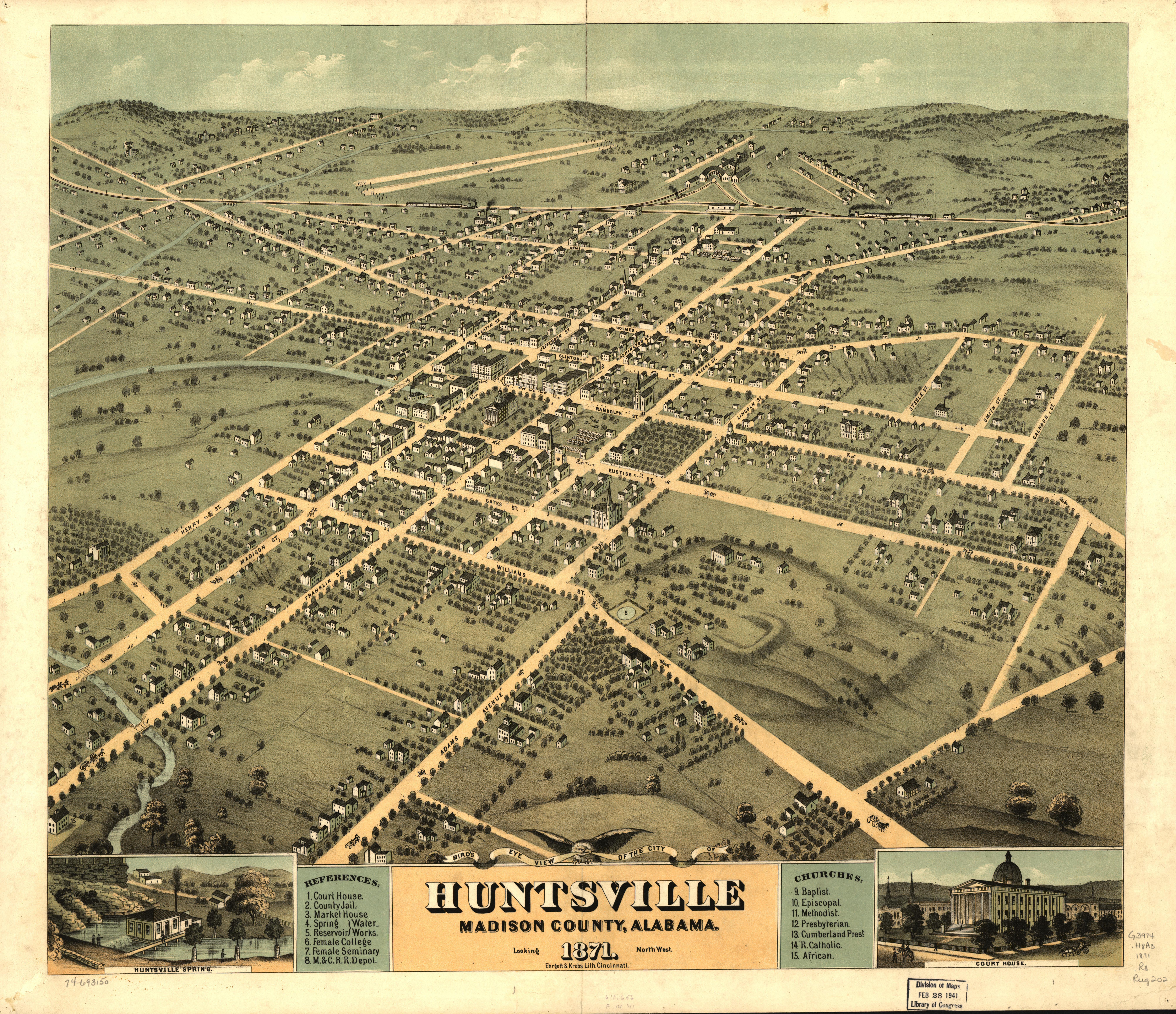 Bird's Eye View of the City of Huntsville in Madision County, Alabama 1871: Looking NorthWest.